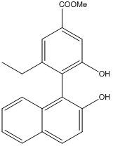 BINOL derivative